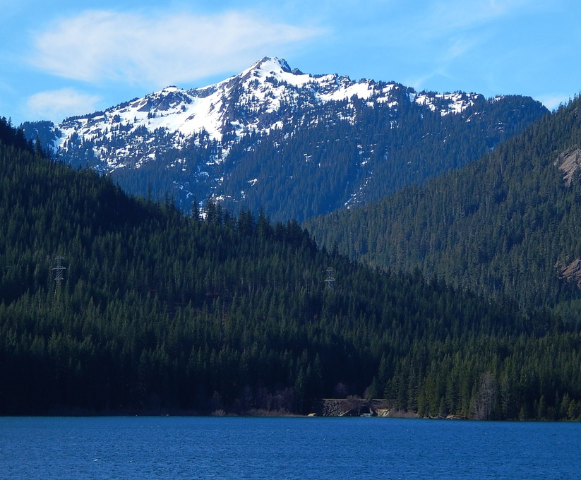 Silver Peak 5605' seen from Keechelus Lake east of Snoqualmie Pass in Washington.